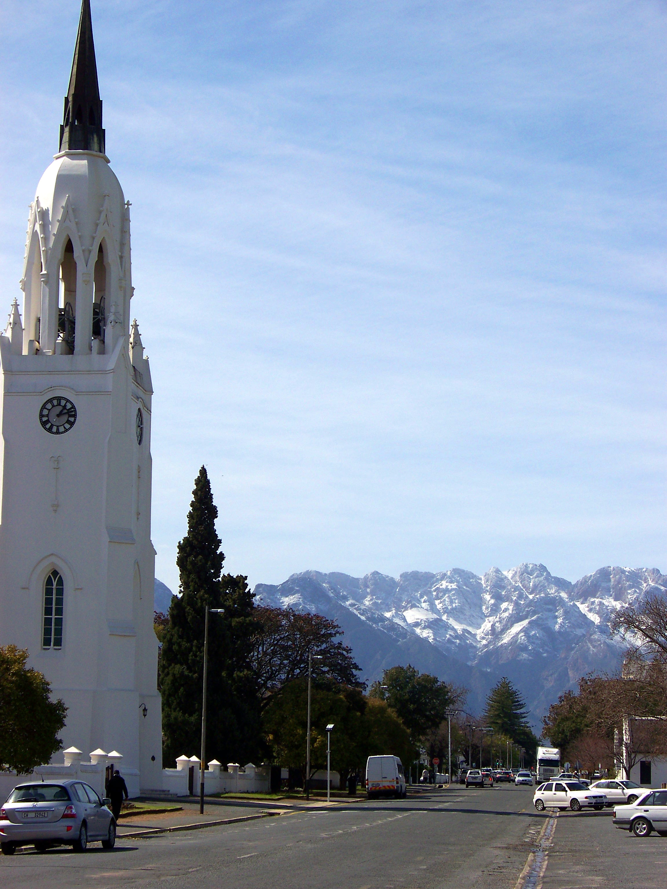 NG Mother Church on Church Street in the town centre. Keeroms Mountain beyond. This media shows a South African Protected Site with SAHRA file reference 9/2/110/0060.